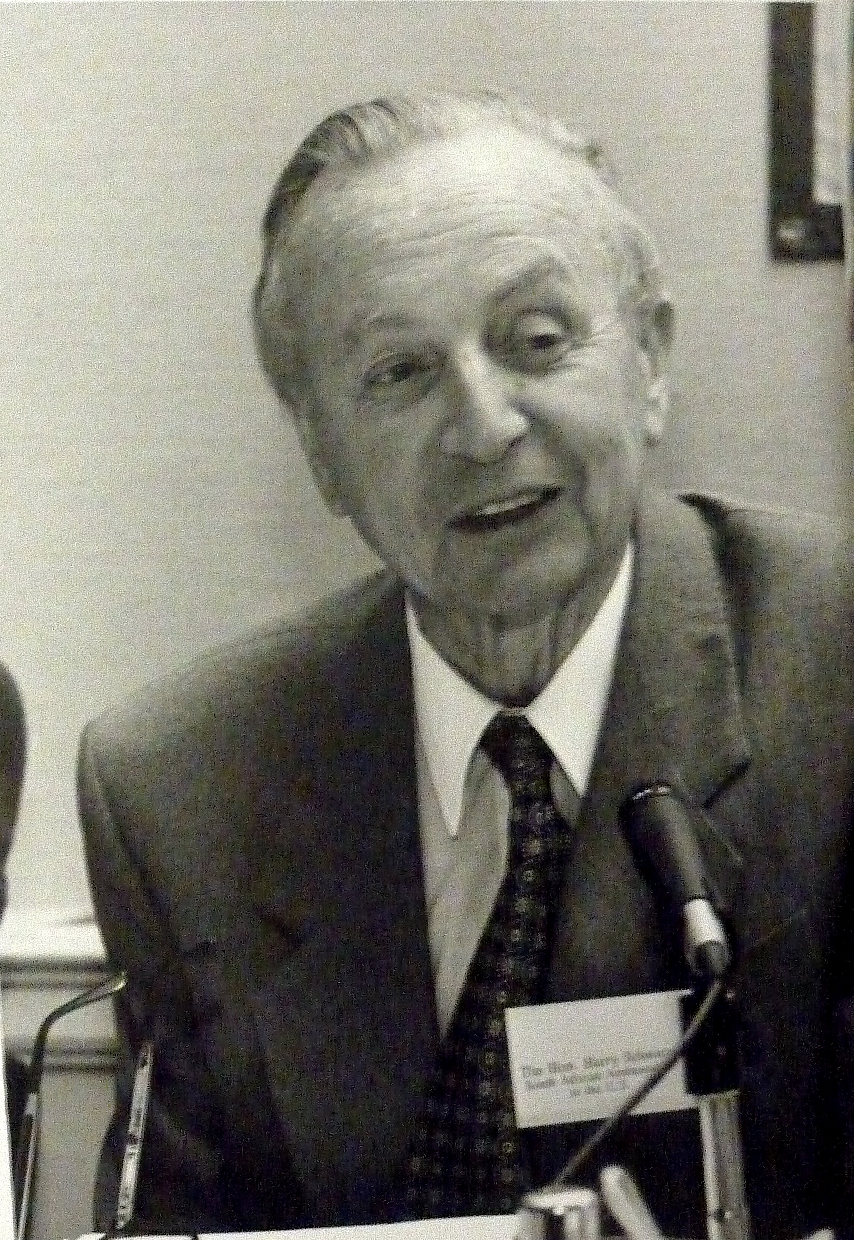 White House Photograph taken of South African Ambassador Harry Schwarz